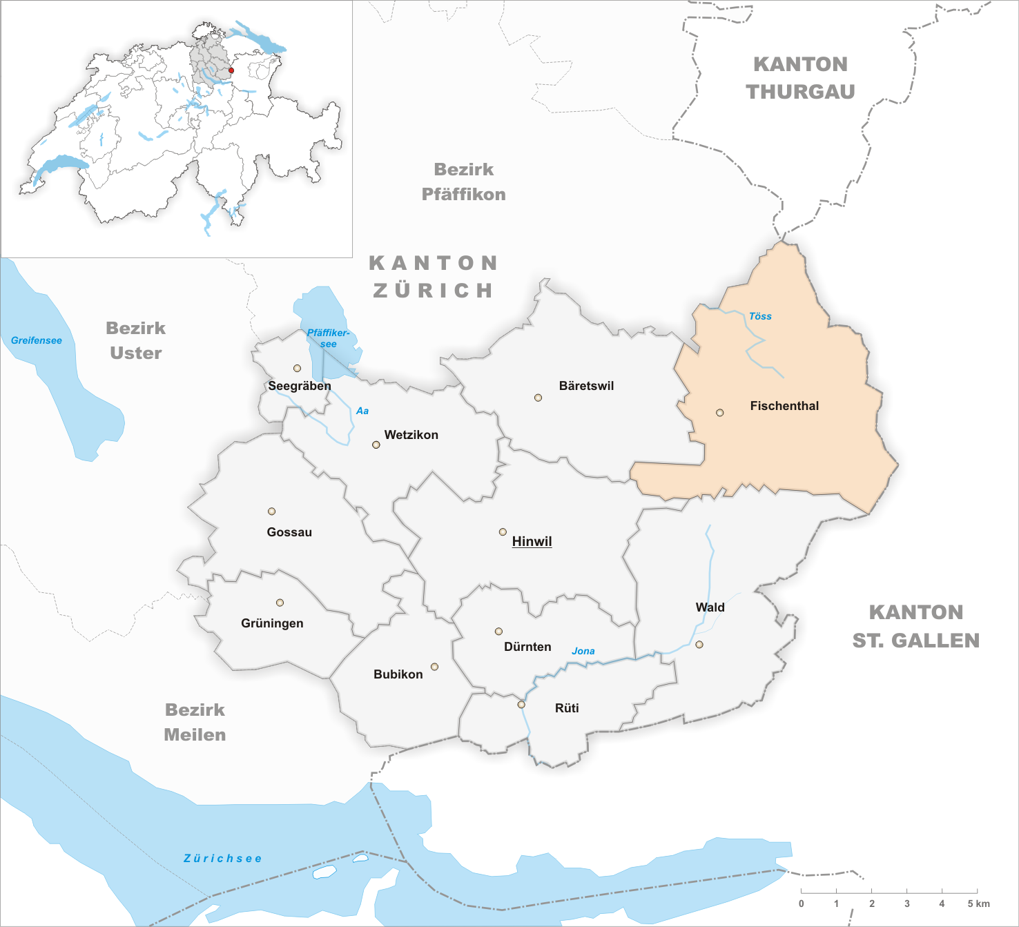 Municipality Fischenthal